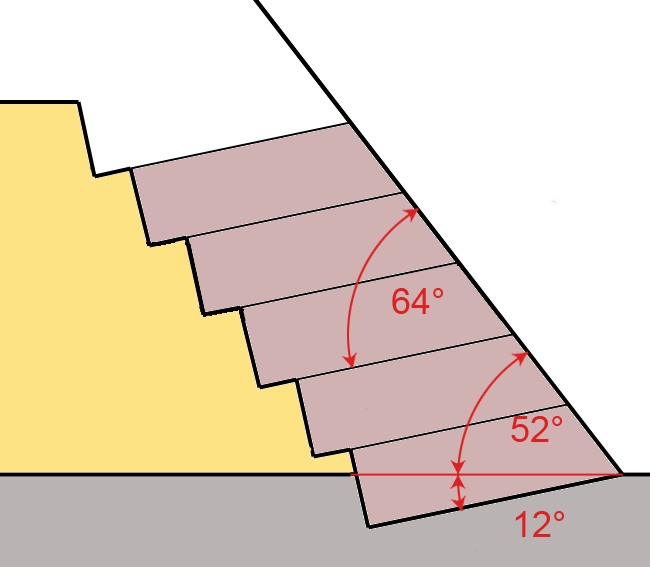 Casing stones of the pyramid of Djedefra